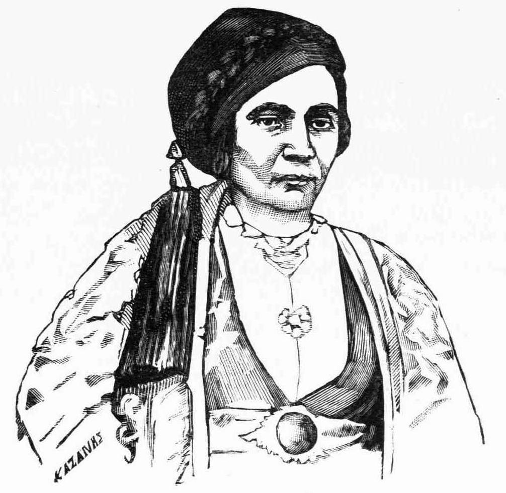 Fotini Kolokotroni, greek first lady